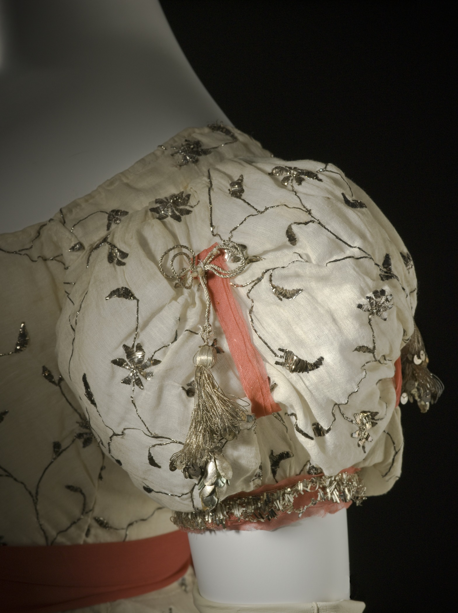 England, circa 1820 Costumes; principal attire (entire body) Cotton plain weave with metallic thread embroidery and silk ribbons with metallic passementerie and tassels Purchased with funds provided by Suzanne A. Saperstein and Michael and Ellen Michelson, with additional funding from the Costume Council, the Edgerton Foundation, Gail and Gerald Oppenheimer, Maureen H. Shapiro, Grace Tsao, and Lenore and Richard Wayne (M.2007.211.734) Costume and Textiles